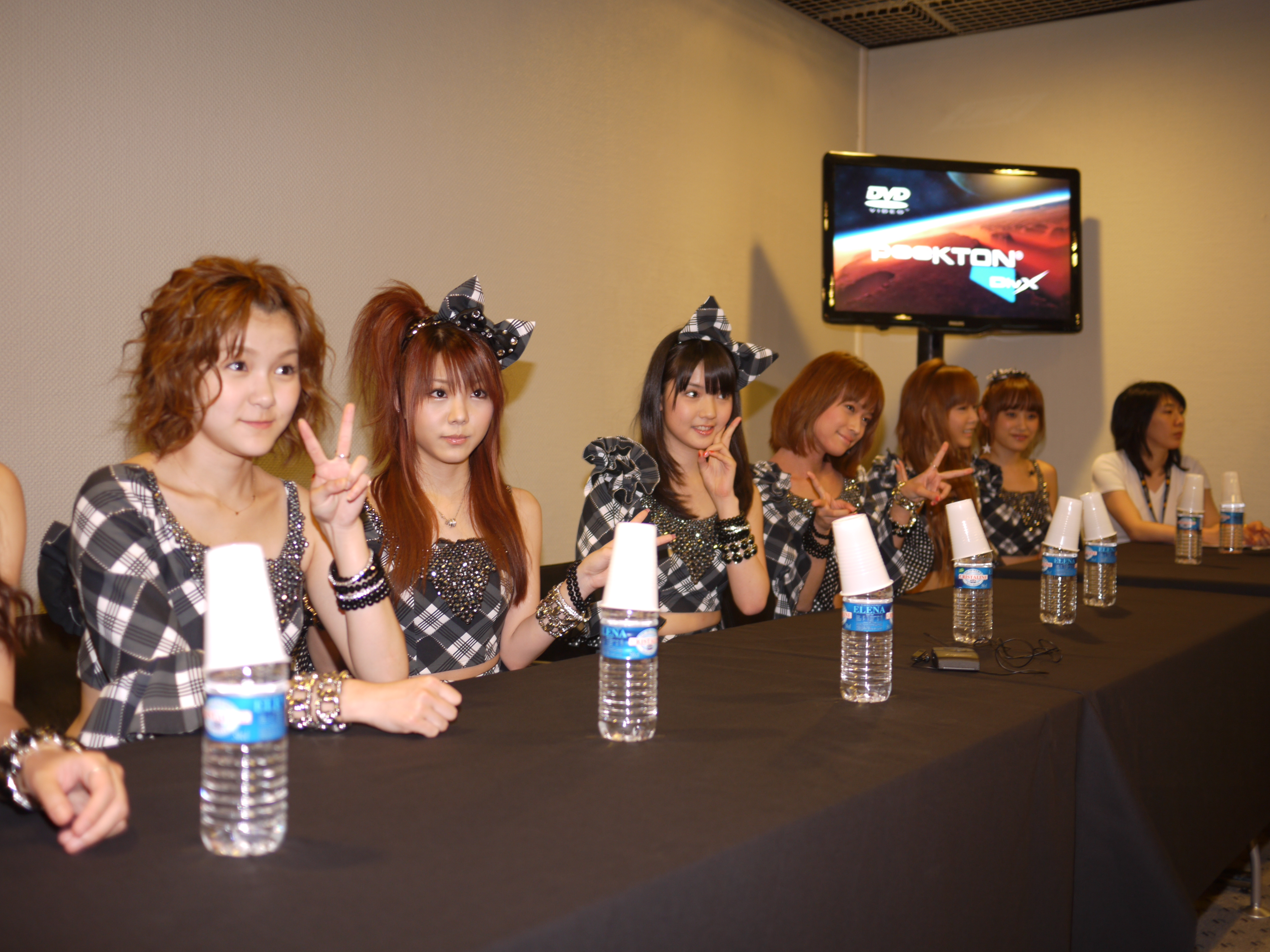 Japan Expo Festival, 11th impact